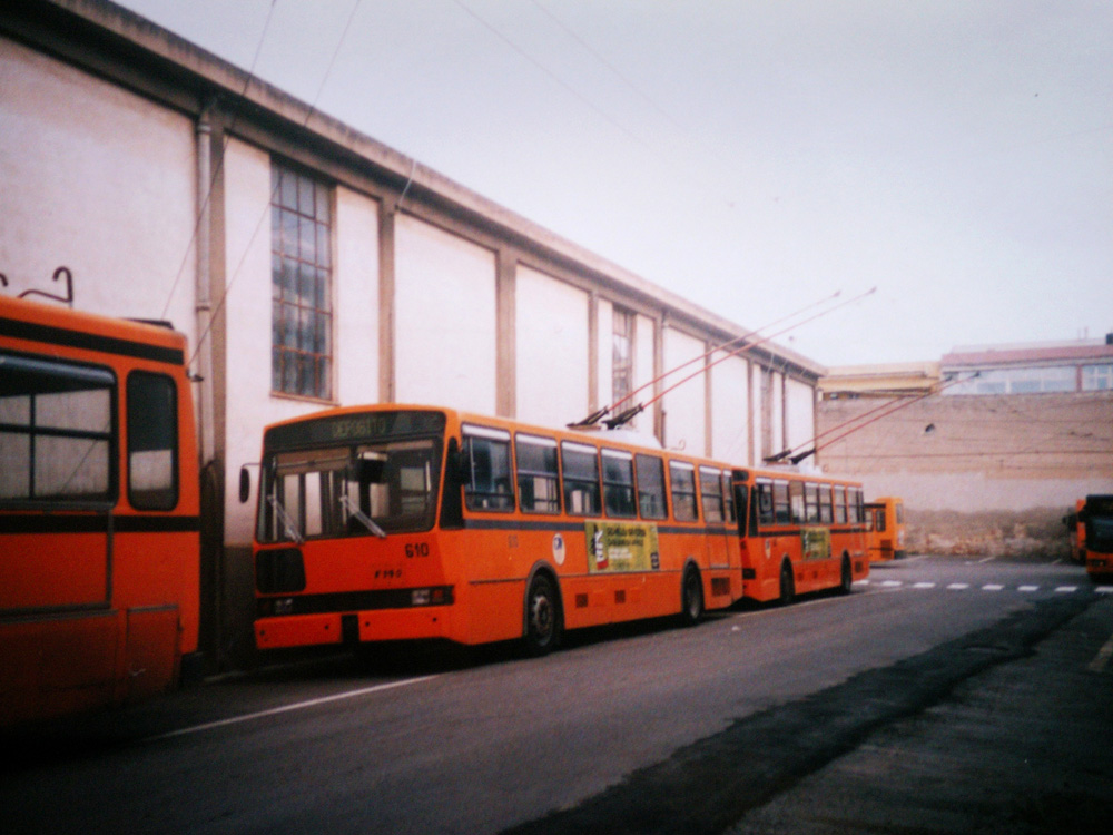 Inbus F140, italian trolleybus, Cagliari, 1981.